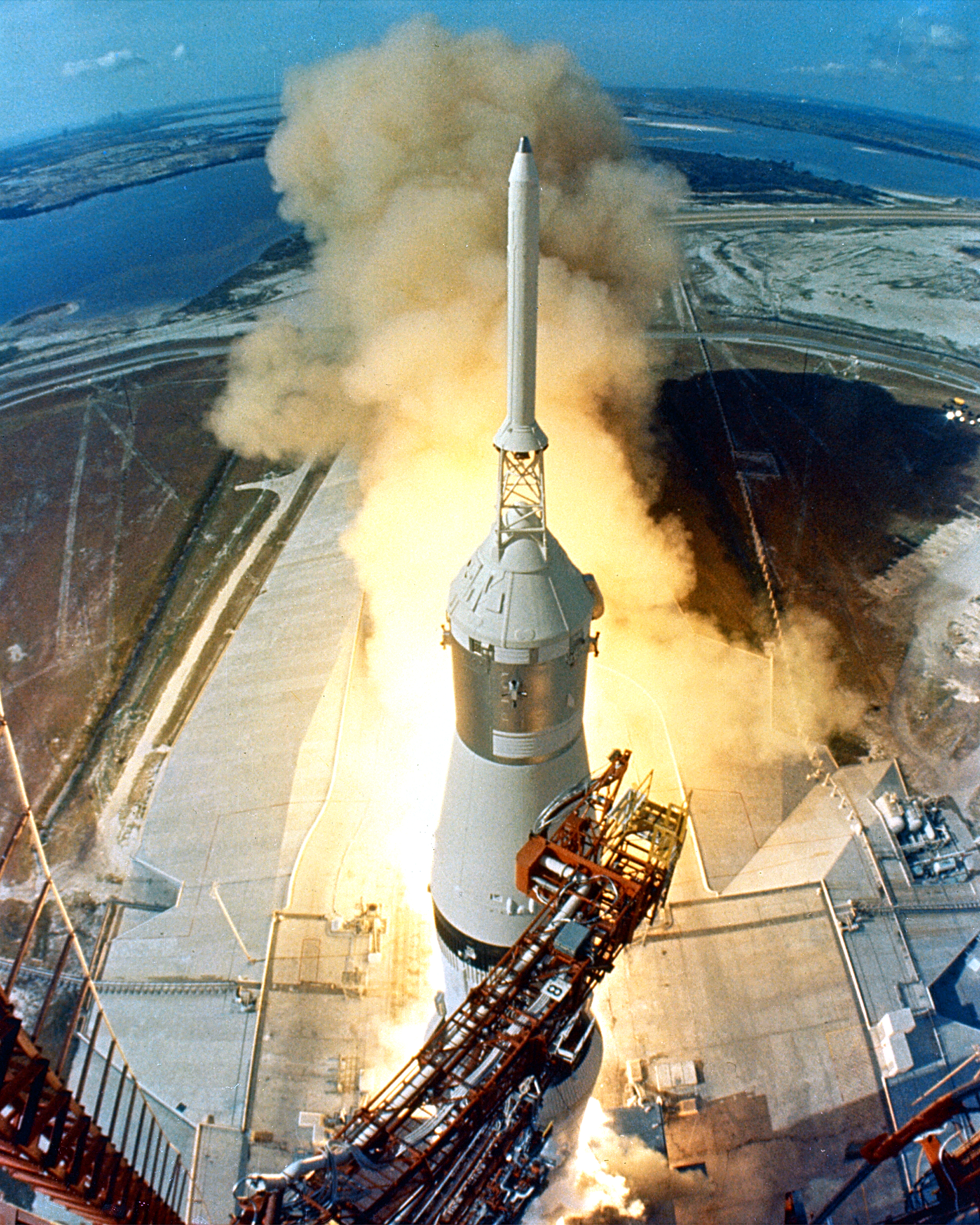 At 9:32 a.m. EDT, the swing arms move away and a plume of flame signals the liftoff of the Apollo 11 Saturn V space vehicle and astronauts Neil A. Armstrong, Michael Collins and Edwin E. Aldrin, Jr. from Kennedy Space Center Launch Complex 39A.